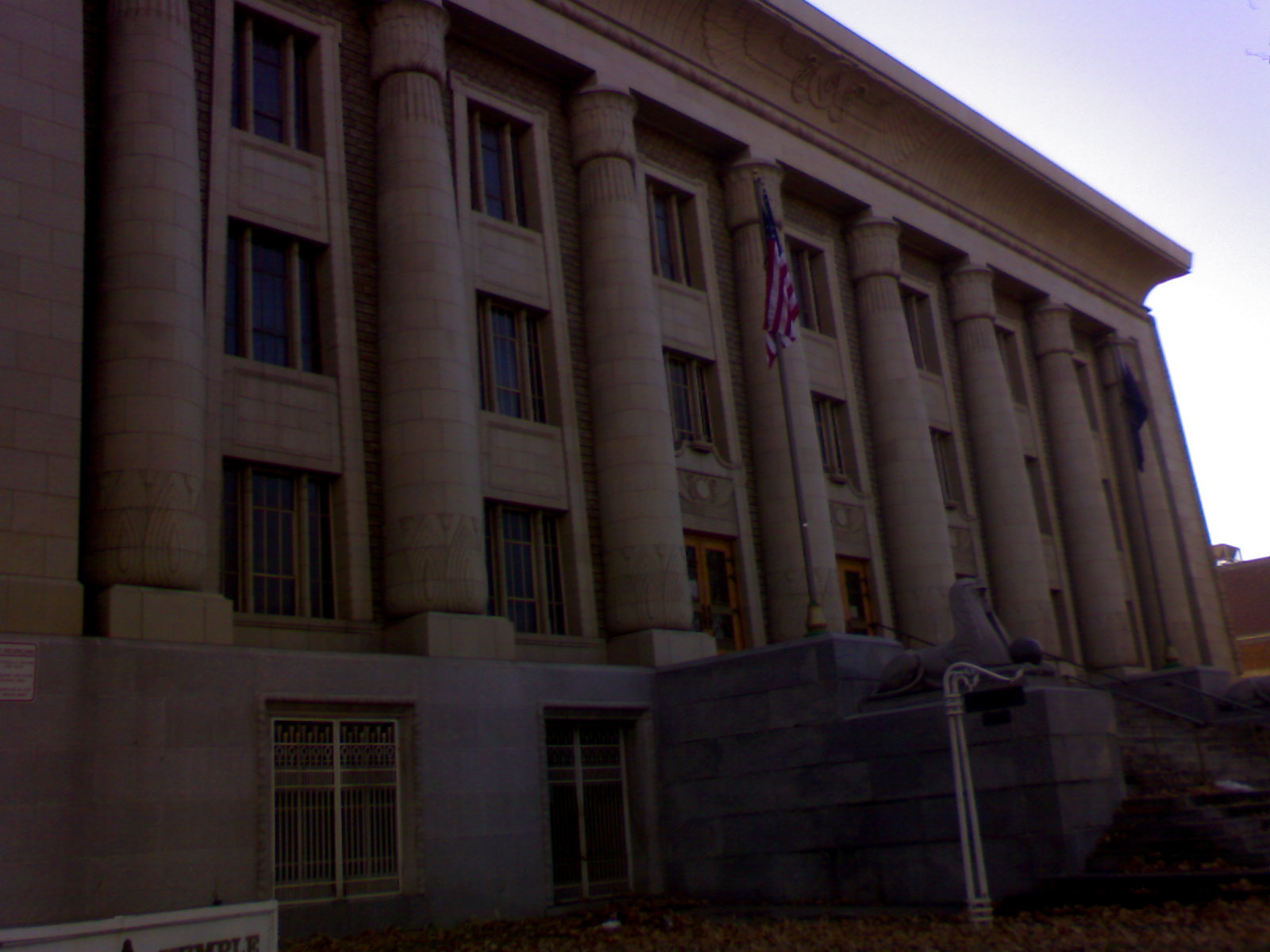 Front view of the Salt Lake Masonic Temple, Utah.